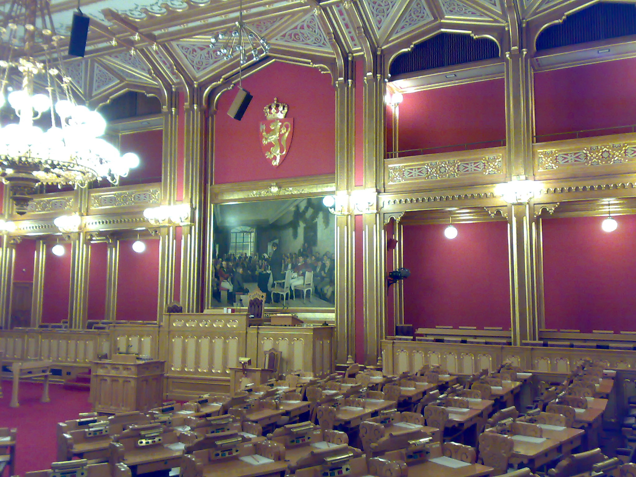 Stortignet building, main chamber